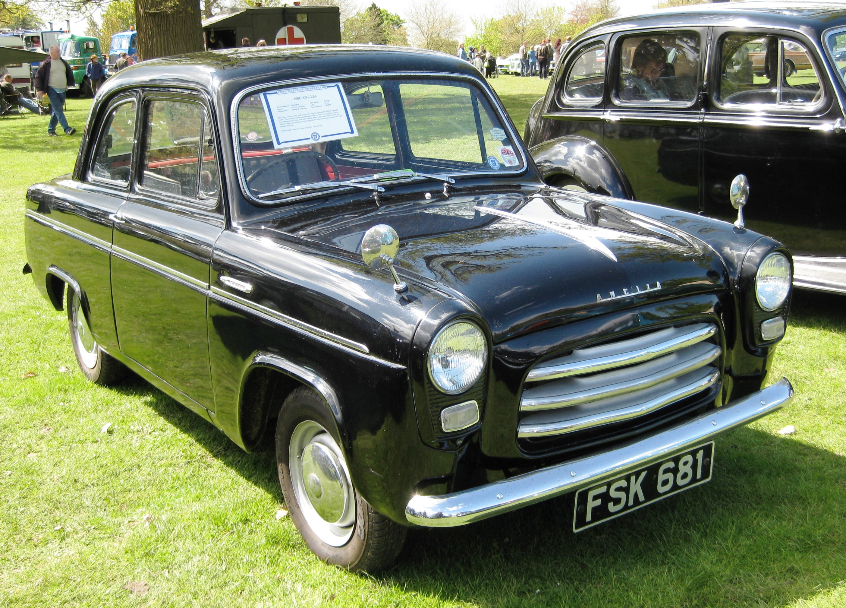 Ford Anglia 100E with pre-facelift grill